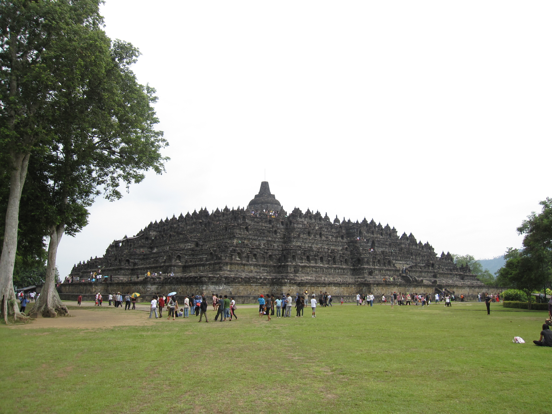 Buddhist stupa Borobudur in central Java, Indonesia.